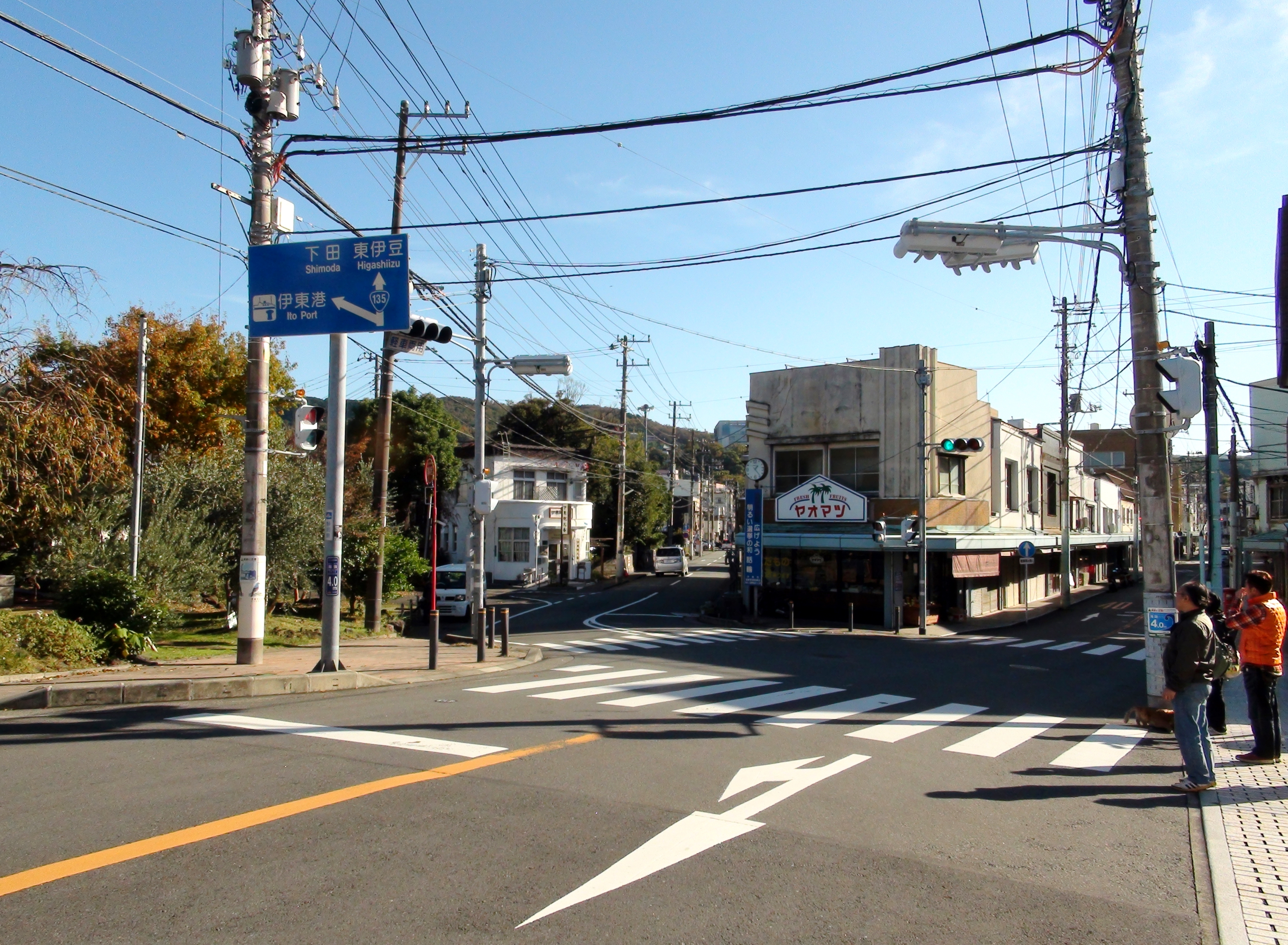 Okawa Bridge south intersection Ito City